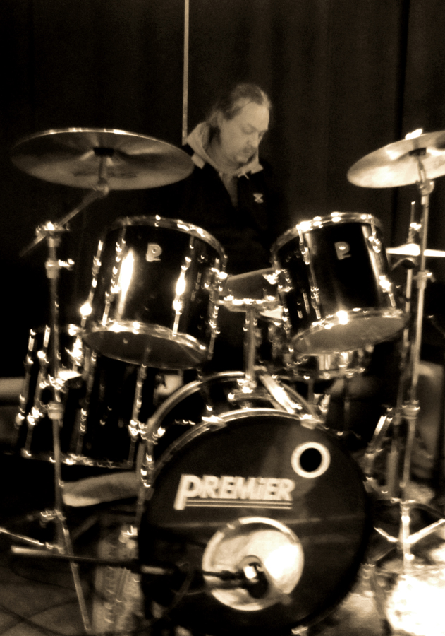 Renegade @ Mbar 2012